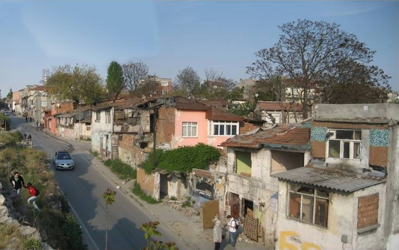 Sulukule, the oldest Gipsy settlement in Europe.